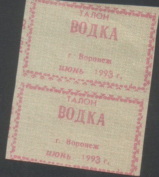 Ration stamps for vodka, June 1993, Voronezh, Russia